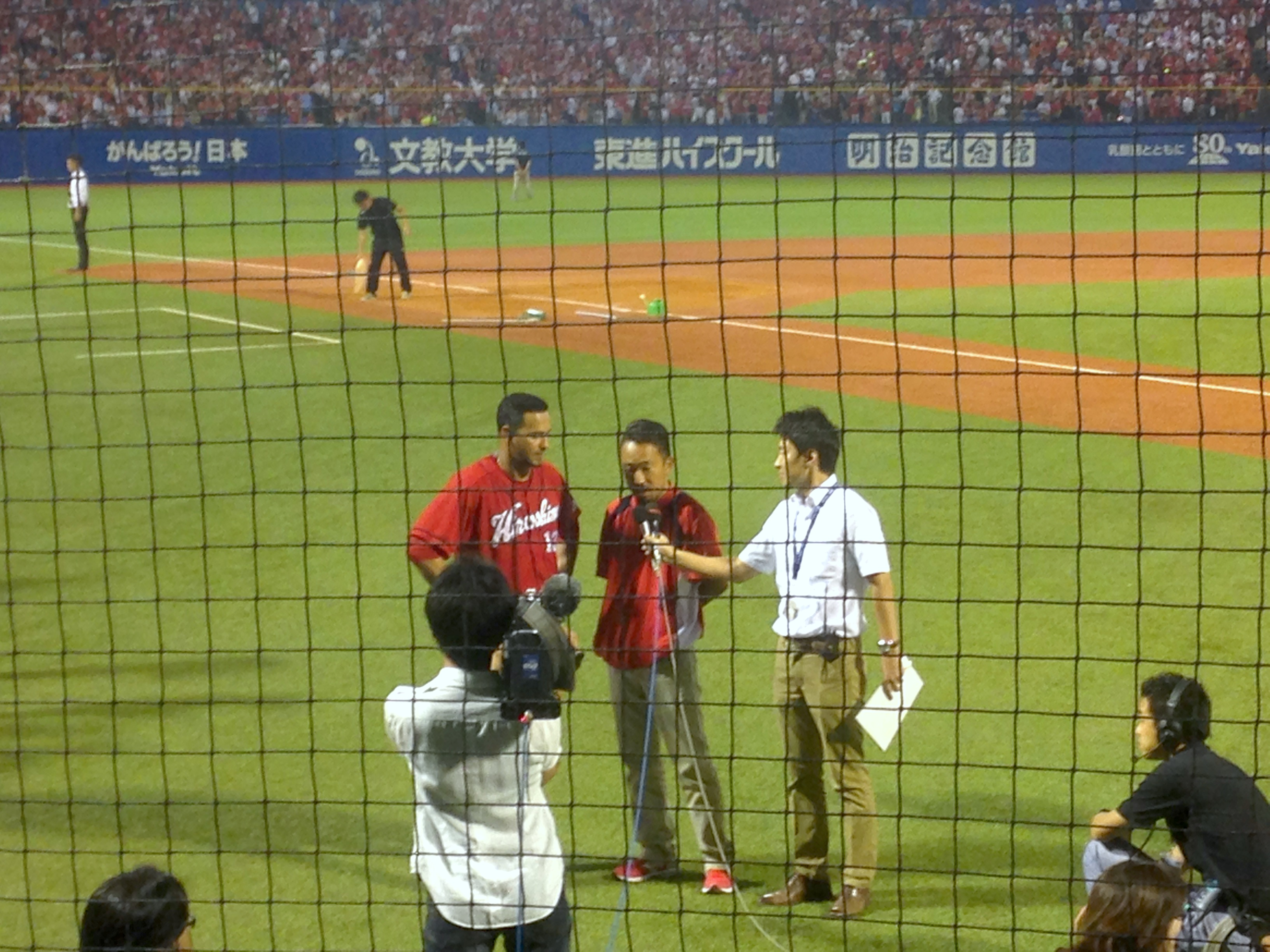 Jesús Guzmán, infielder of the Hiroshima Toyo Carp, at Meiji Jingu Stadium